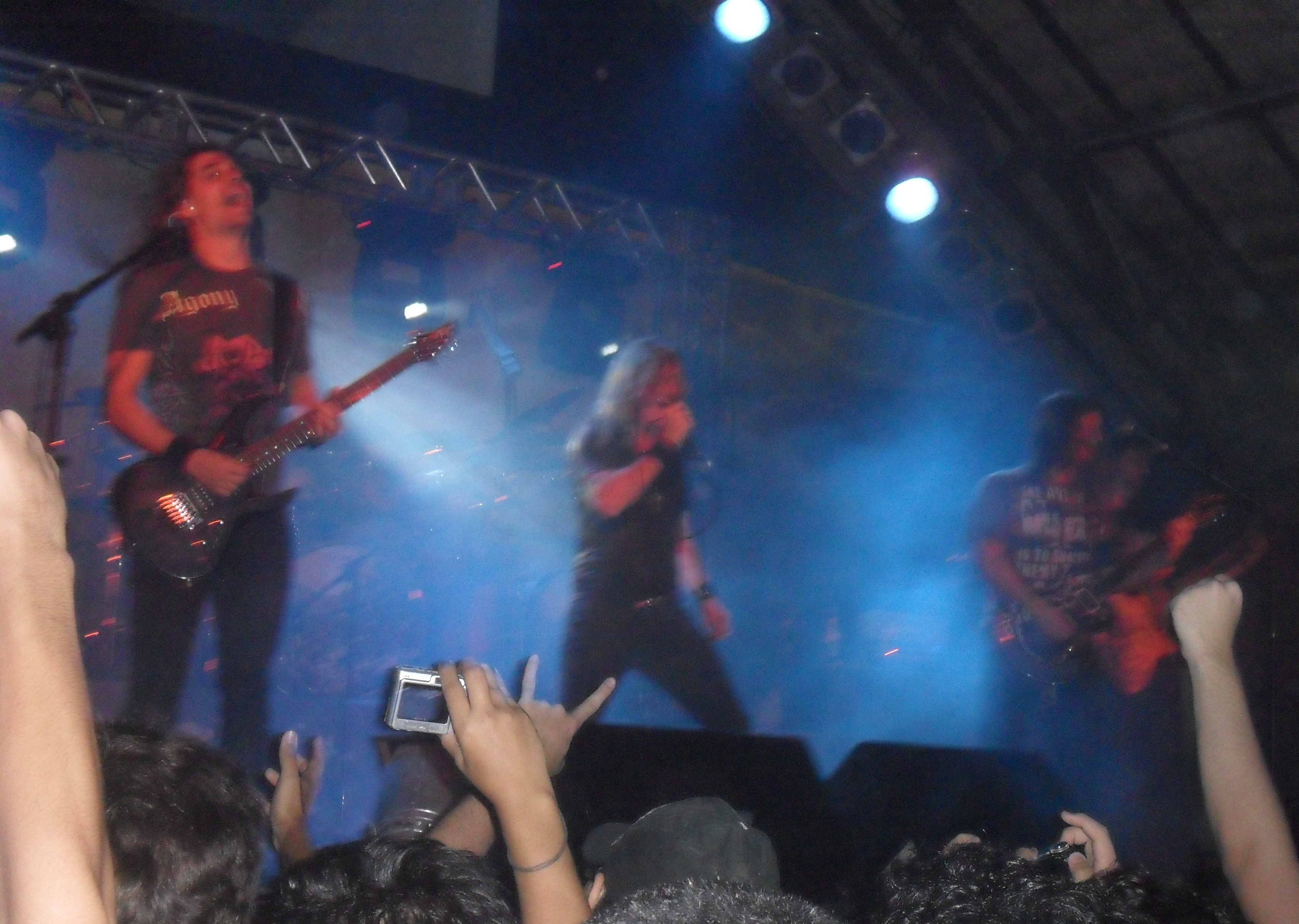 Angra Live In Fortleza.